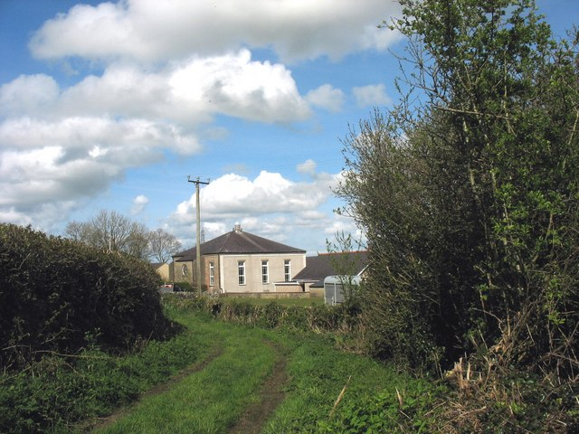 Approaching Capel Horeb along the footpath from Henblas